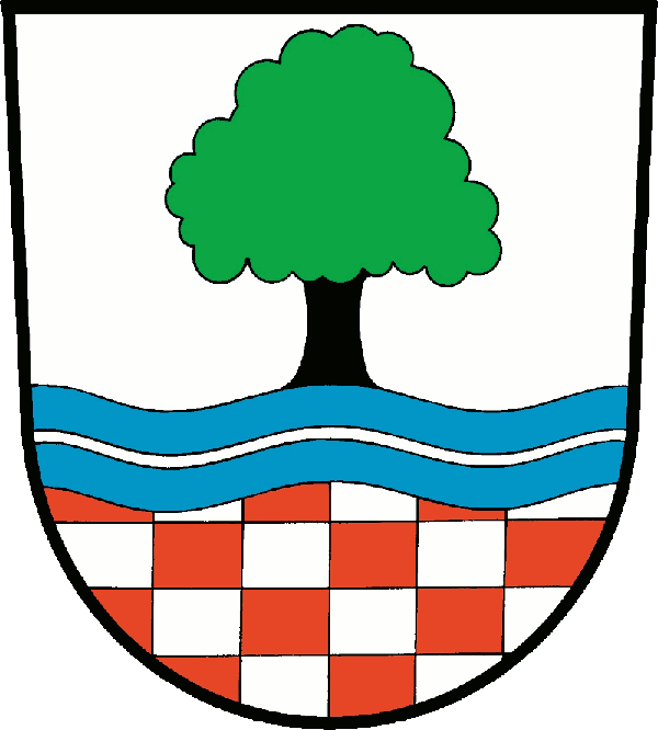 Coat of arms of Zeuthen